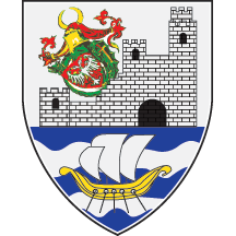 Coat of arms of Golubac